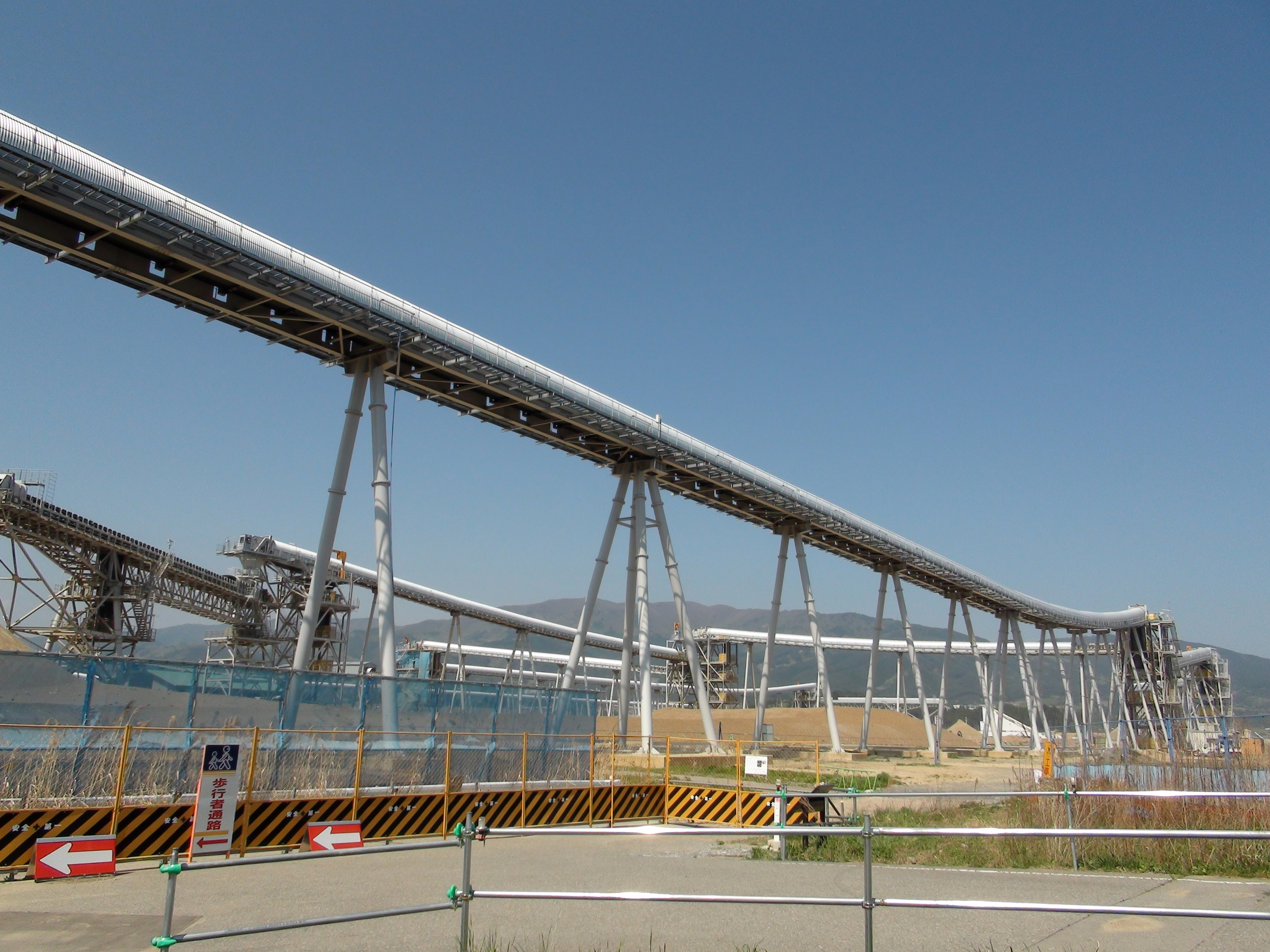 Rikuzentakata, belt conveyors for the earthquake reconstruction